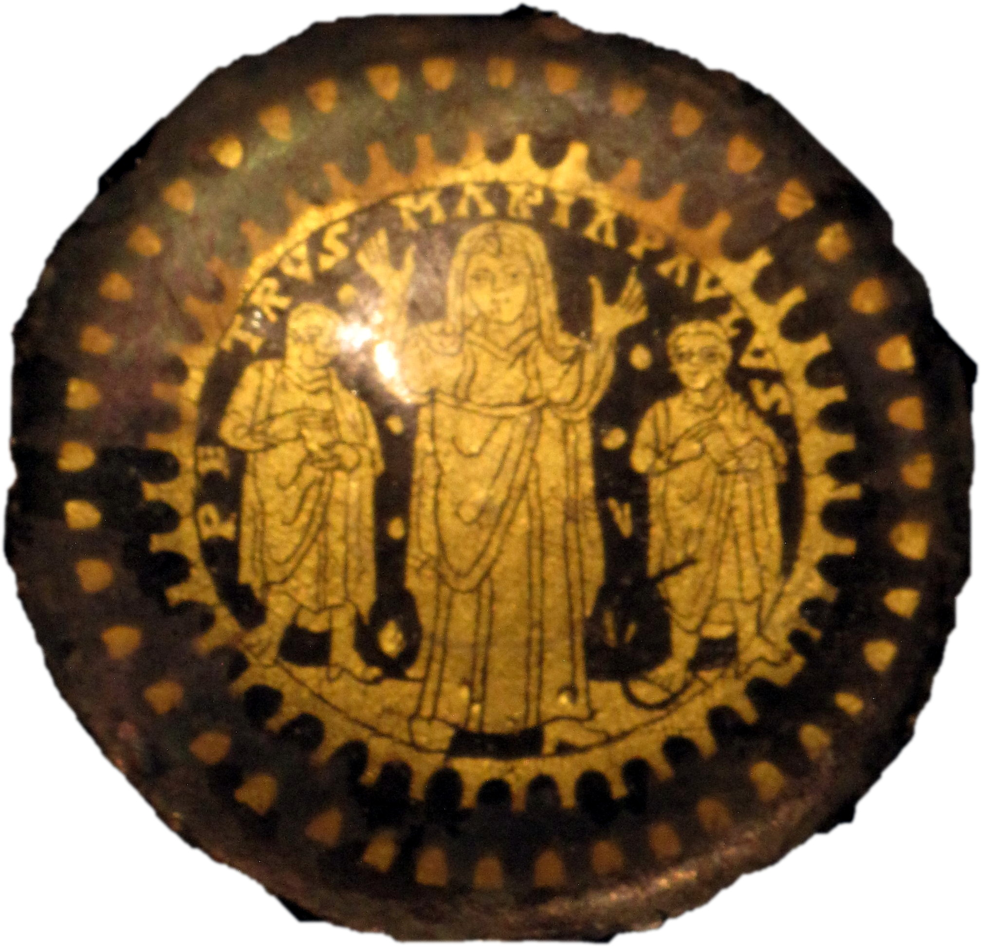 Plate of a golden set with Christian themes (Saint Peter, Virgin Mary in orant pose, Saint Paul). Probably from a catacomb in Rome, 4th CE. Catalog II collection Wolf n° 66. On display at the Landesmuseum Württemberg.